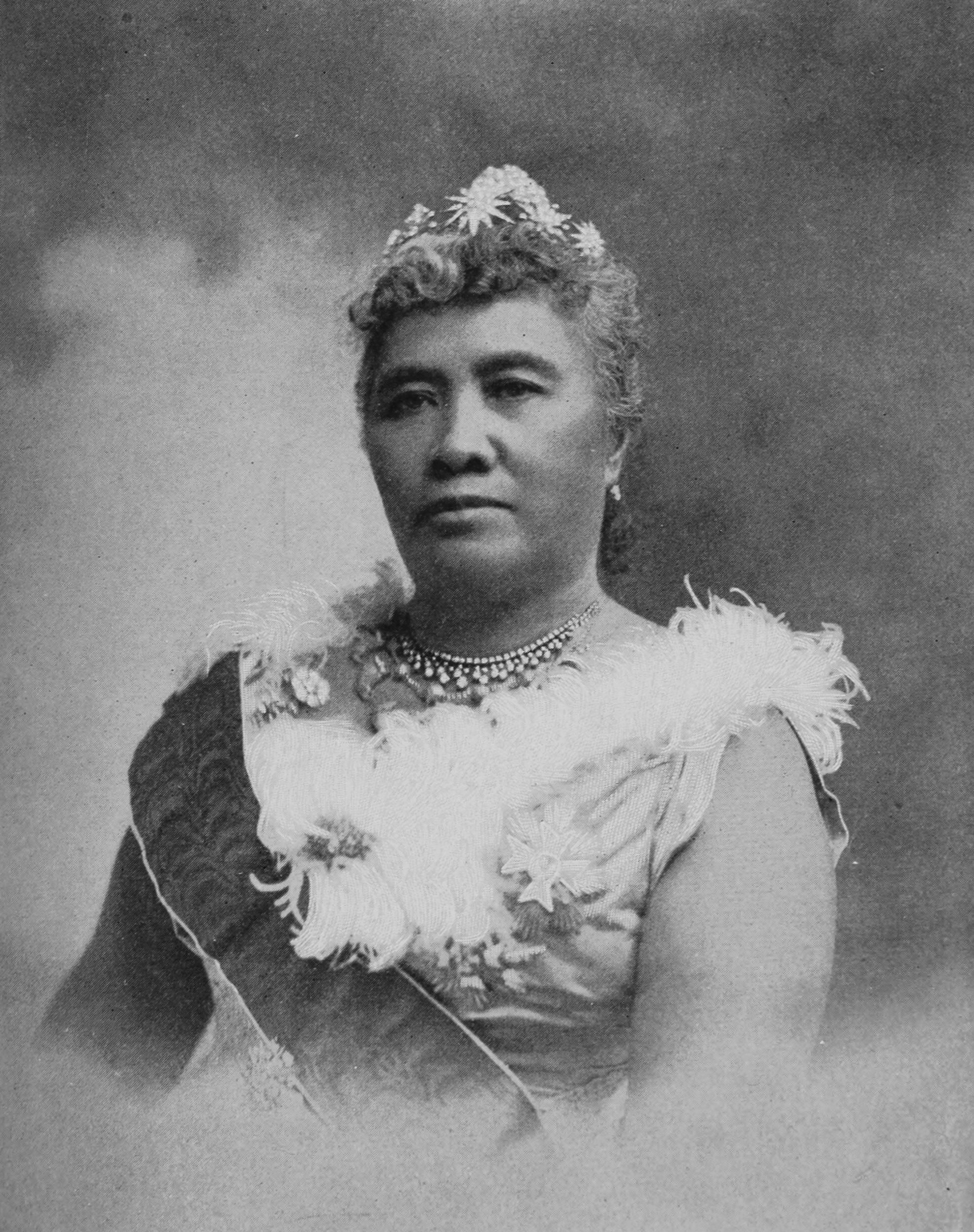 Queen Liliuokalani.